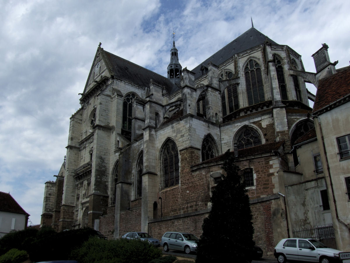 St. Florentin, France